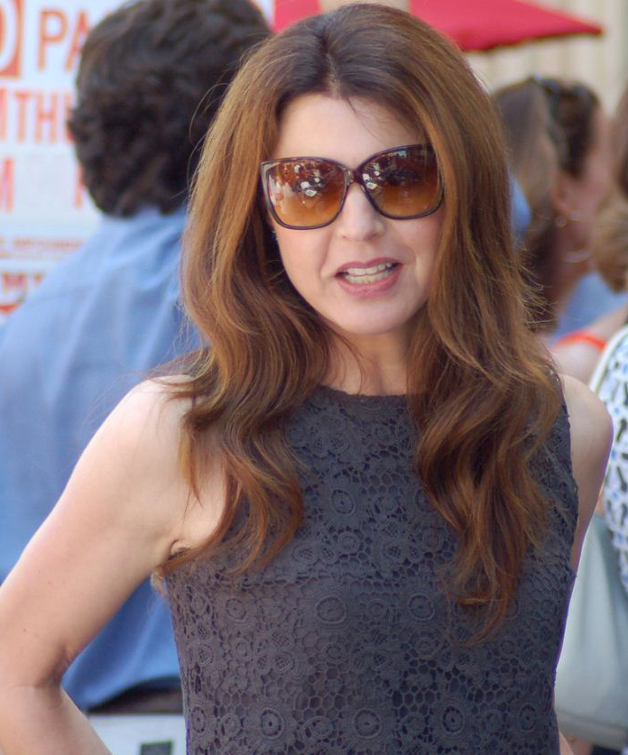 Jane Leeves at a ceremony for Valerie Bertinelli to receive a star on the Hollywood Walk of Fame.